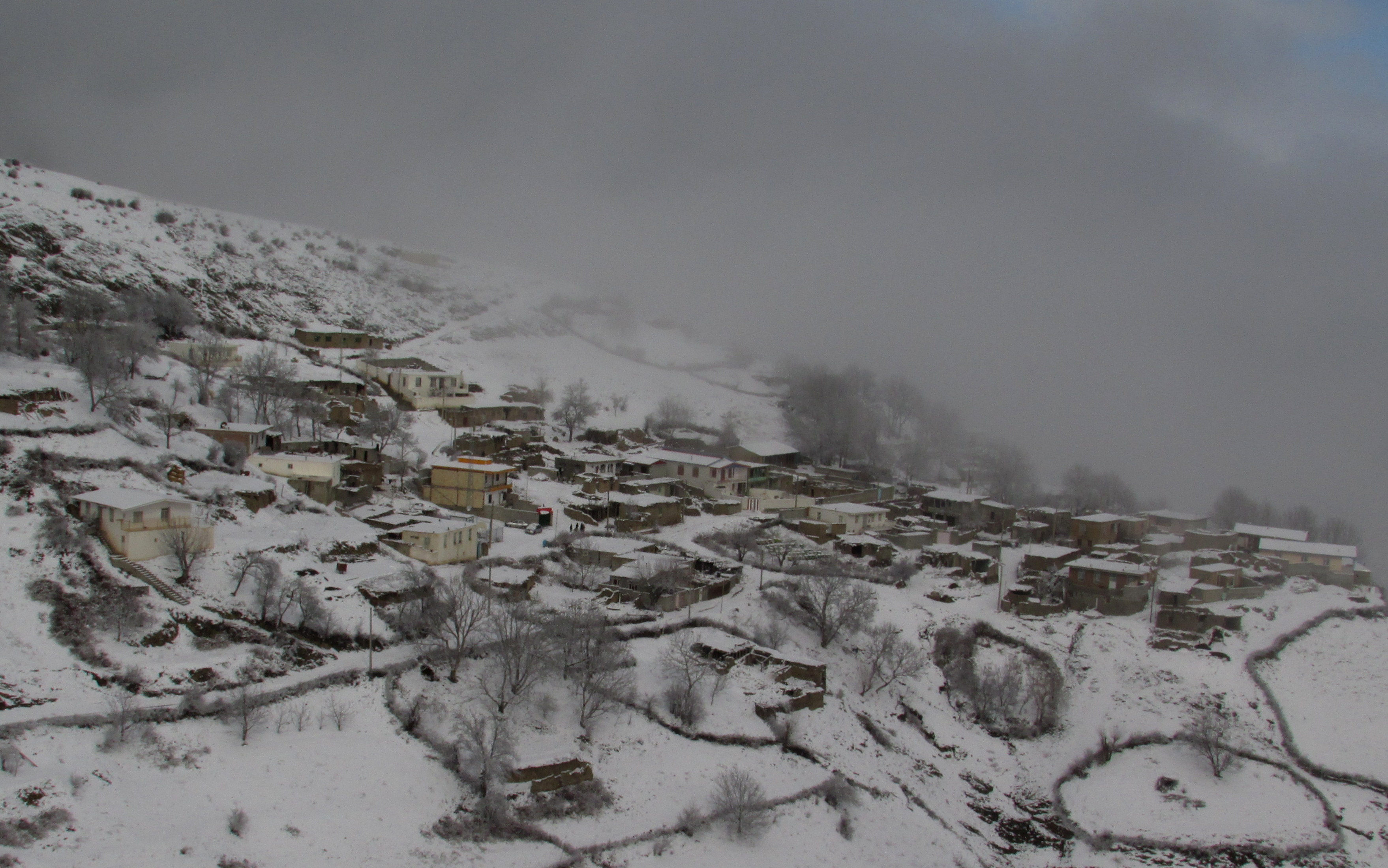 This photo was taken from Abbasabad village in a winter day.